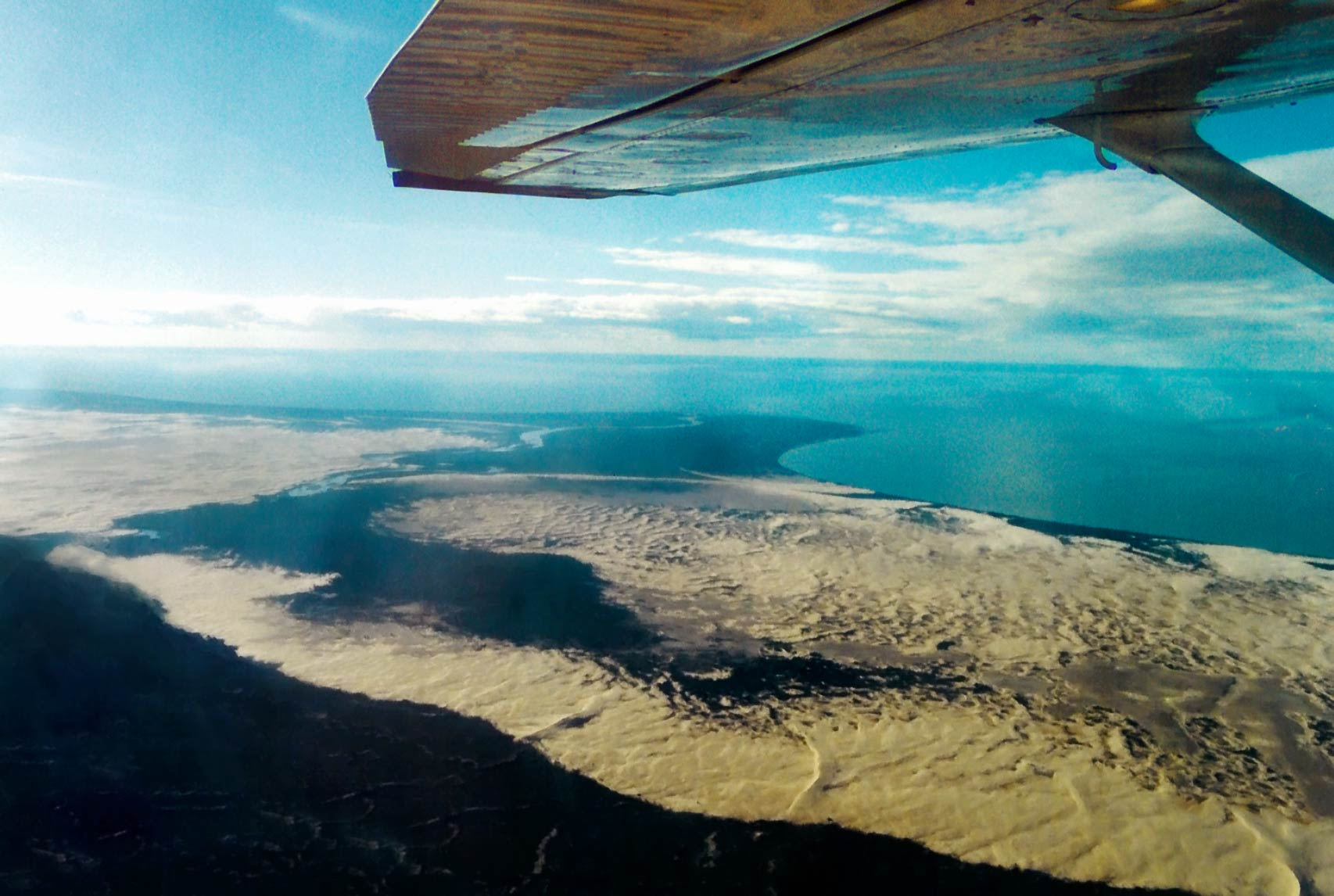 The Great sand dunes along Lake Athabasca's south shore, the largest dunes north of Arizona. 2000